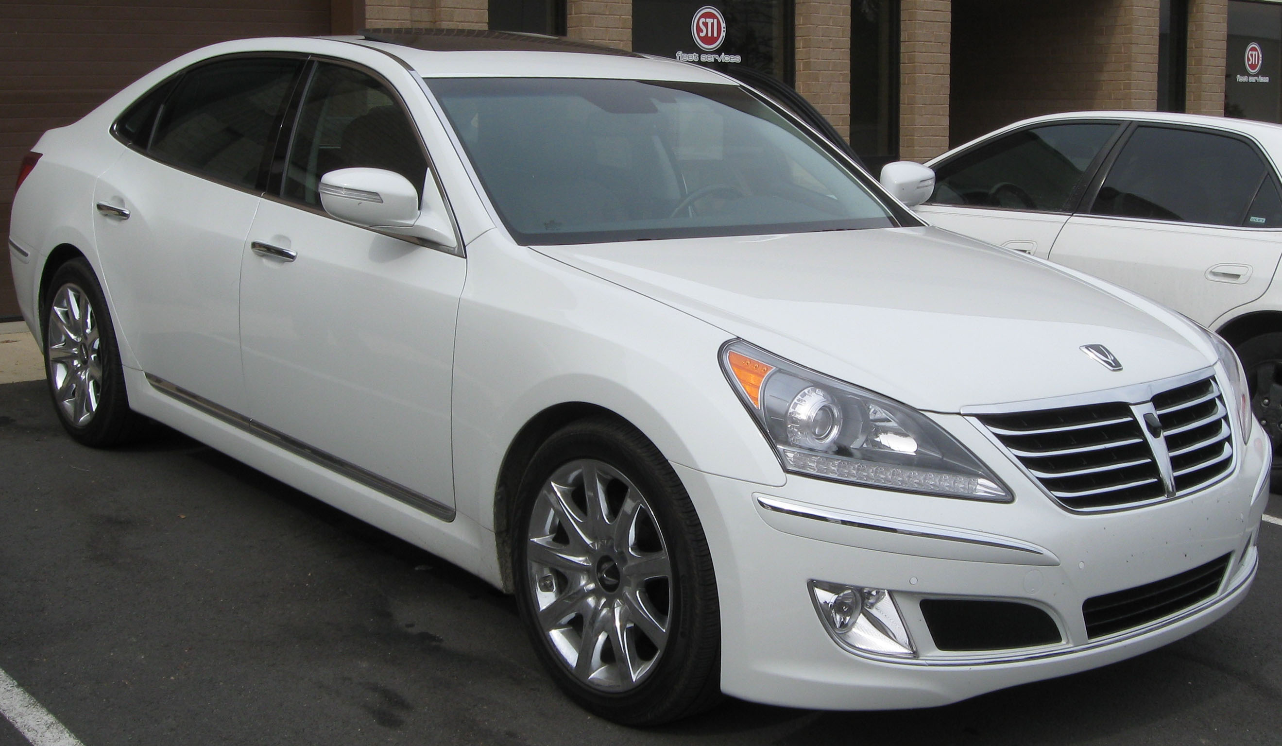 2011 Hyundai Equus photographed in Chantilly, Virginia, USA.